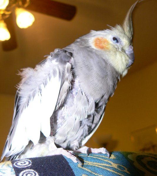 Author: Self URL: File:Plucked chest.jpg